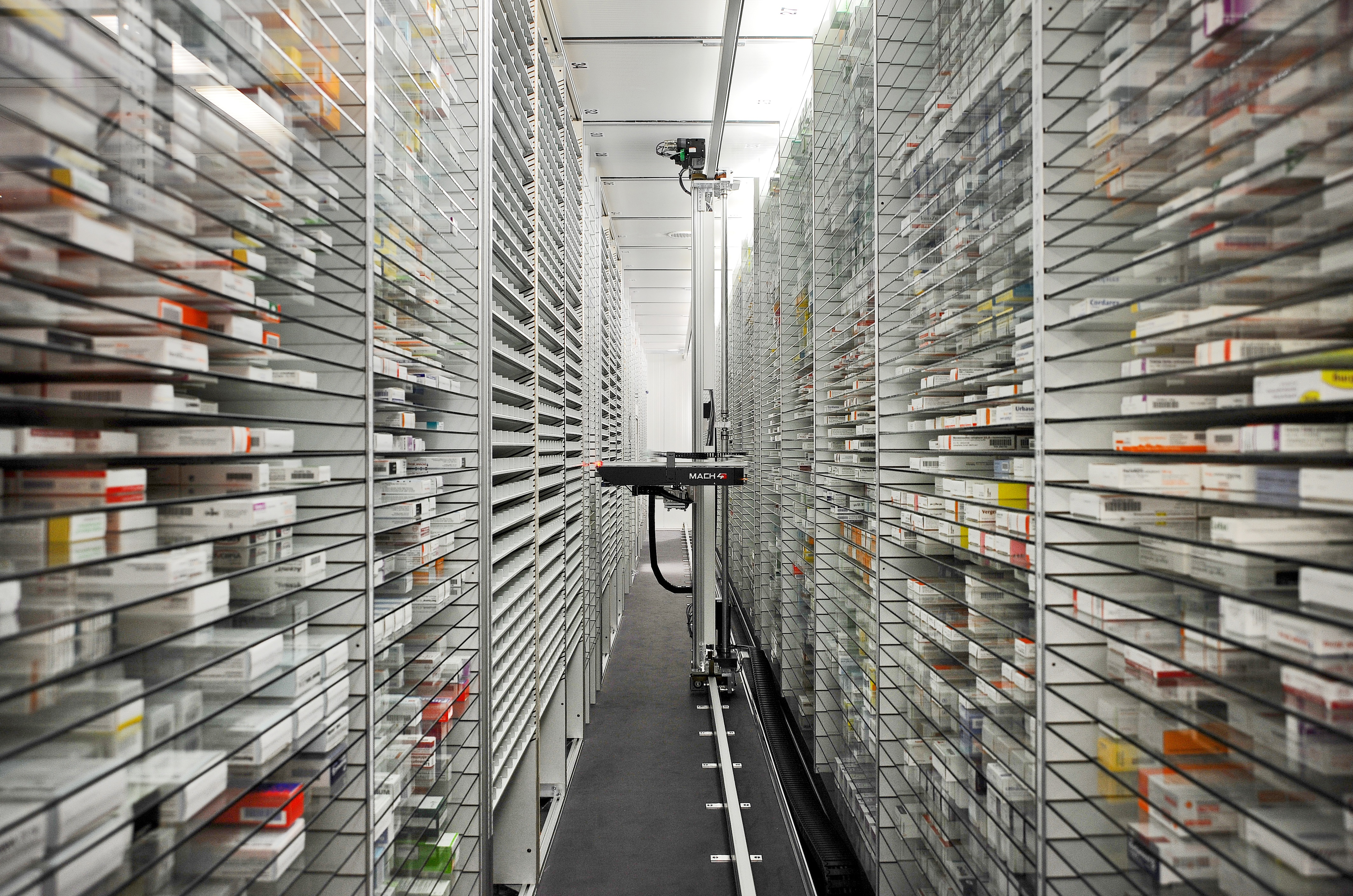 Consignment robot picking pharmacy packages from storage shelf; hospital pharmacy of Universitätsklinik Münster